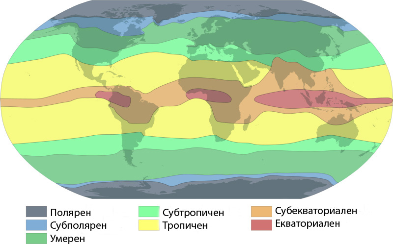 Climate types